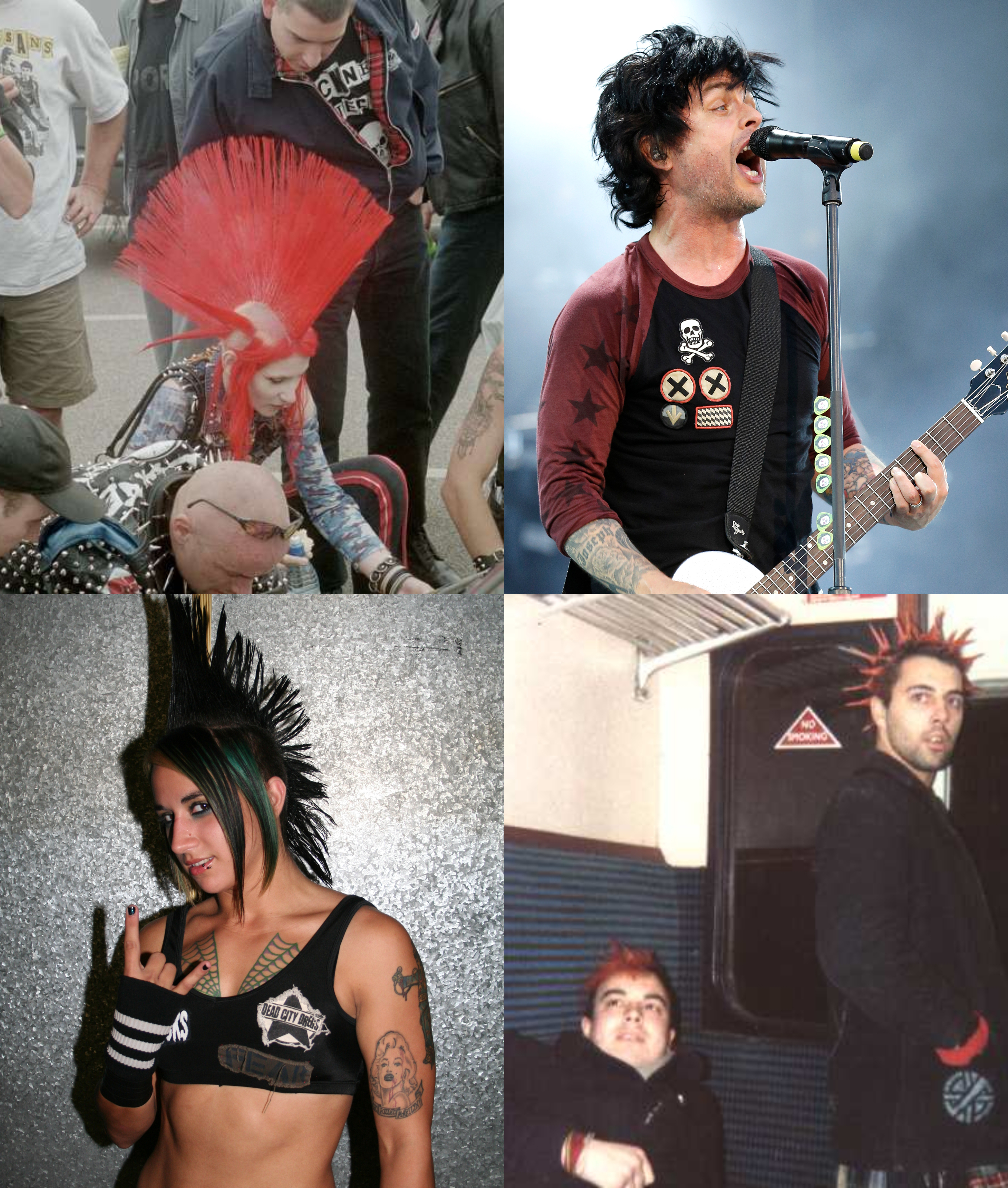 A collage of punk fashion pictures.